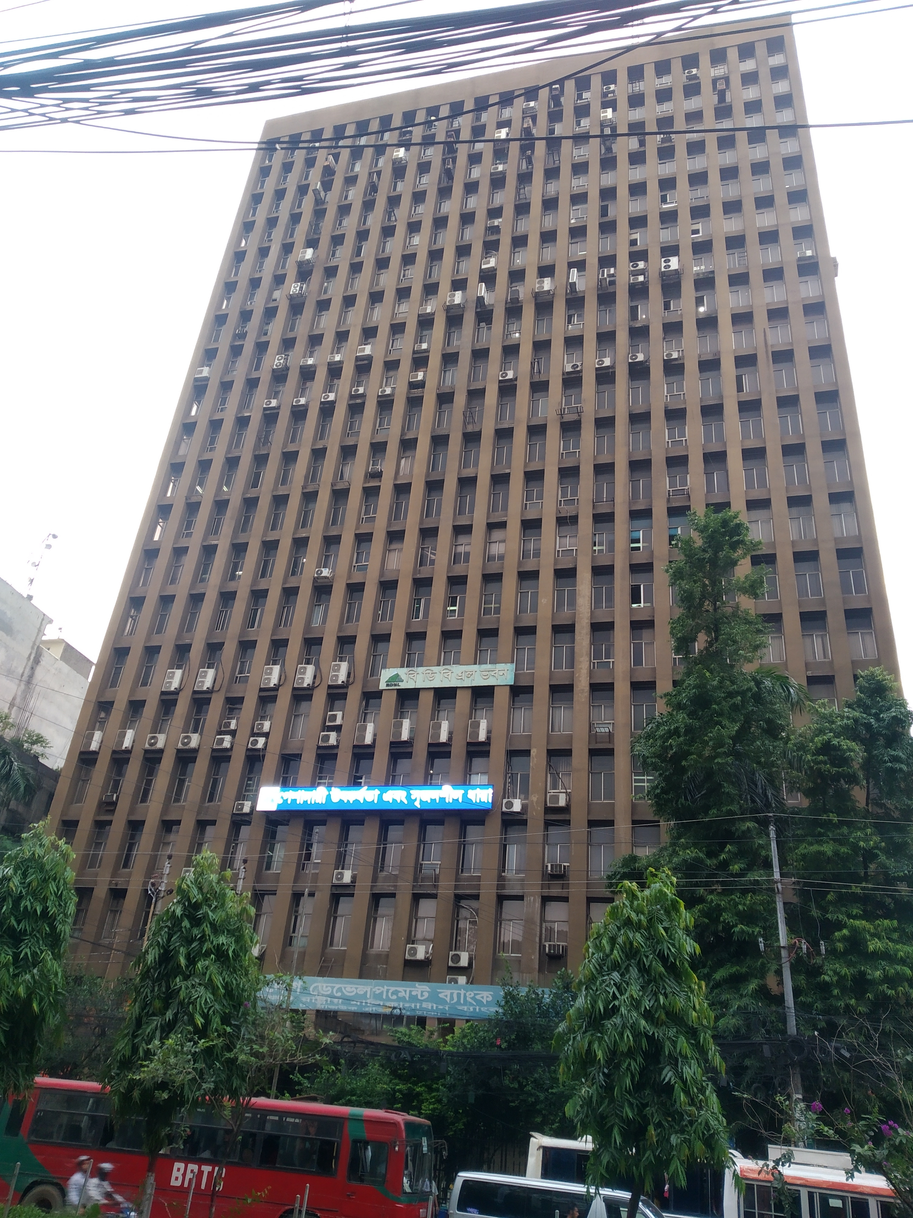 Bangladesh Development Bank limited